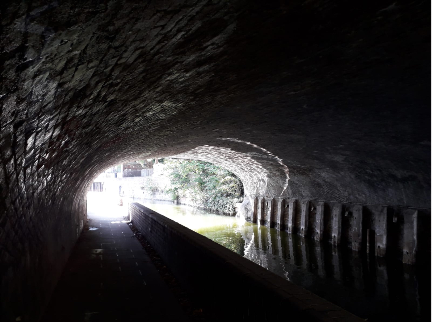 The Limehouse Cut passes under the Commercial Road at Britannia Bridge, built c.1853, when the towpath was added.